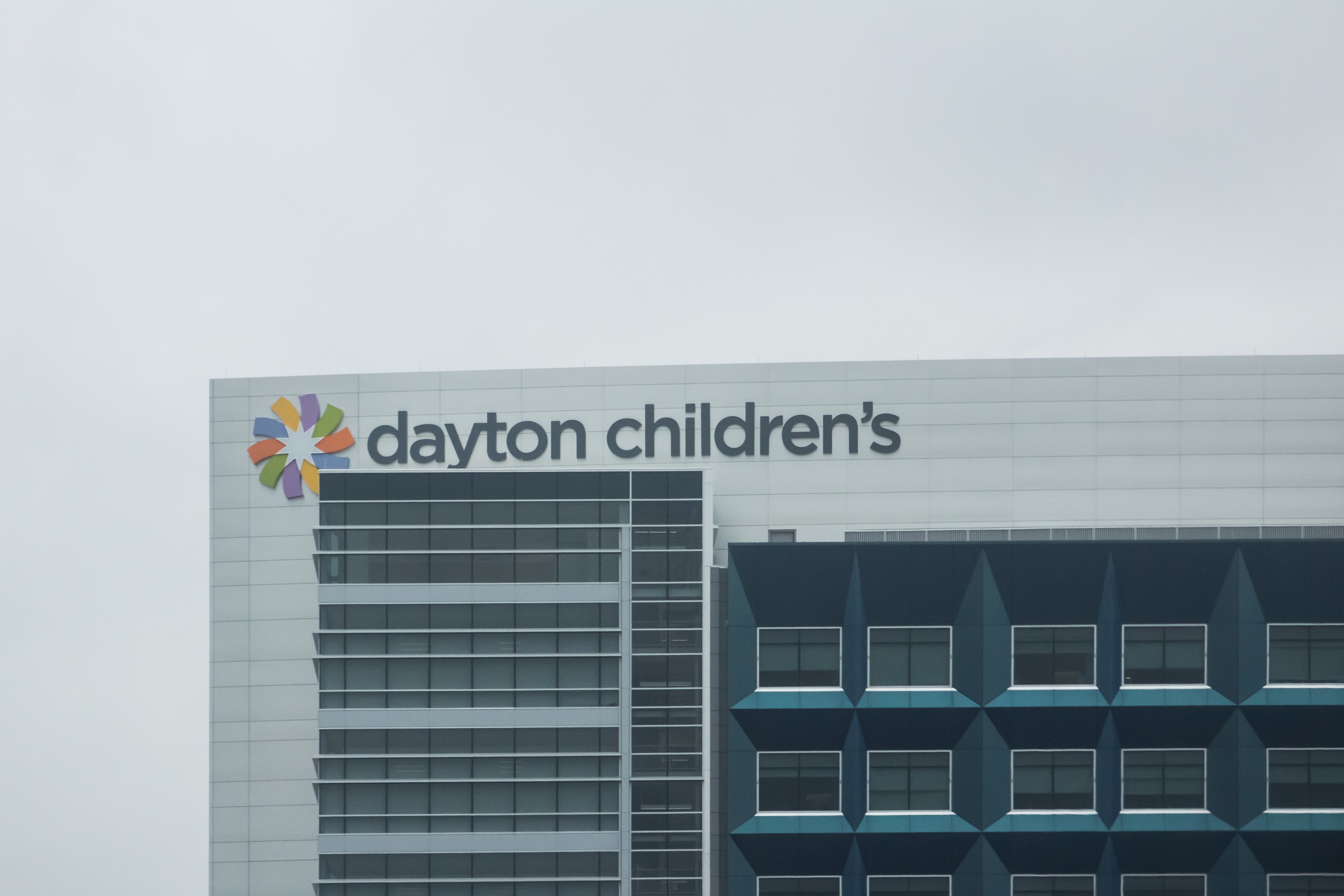 The Dayton Children's Museum from the westbound lane of the Ohio State Route 4 in Dayton, Ohio. This was taken west of the Findlay Street exit. Coordinates are approximate and were not inputted by the camera.